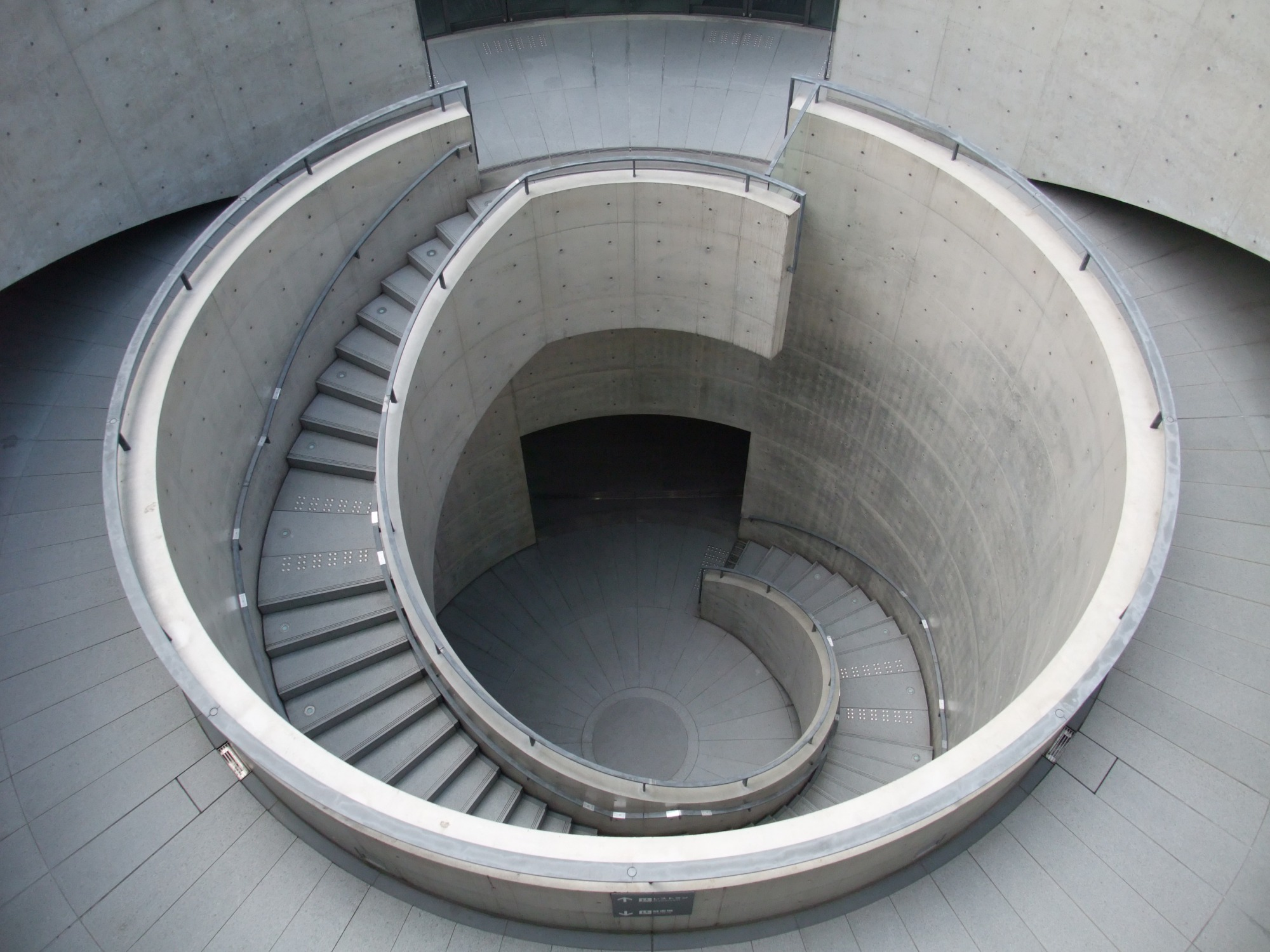 Hyogo Prefectural Museum of Art in Kobe